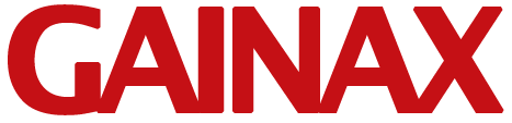 Gainax logo, created in Photoshop. Font used: Lucida Sans.